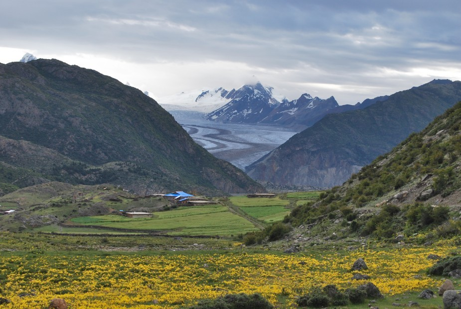 Laigu Glacier in Baxoi County, Tibet